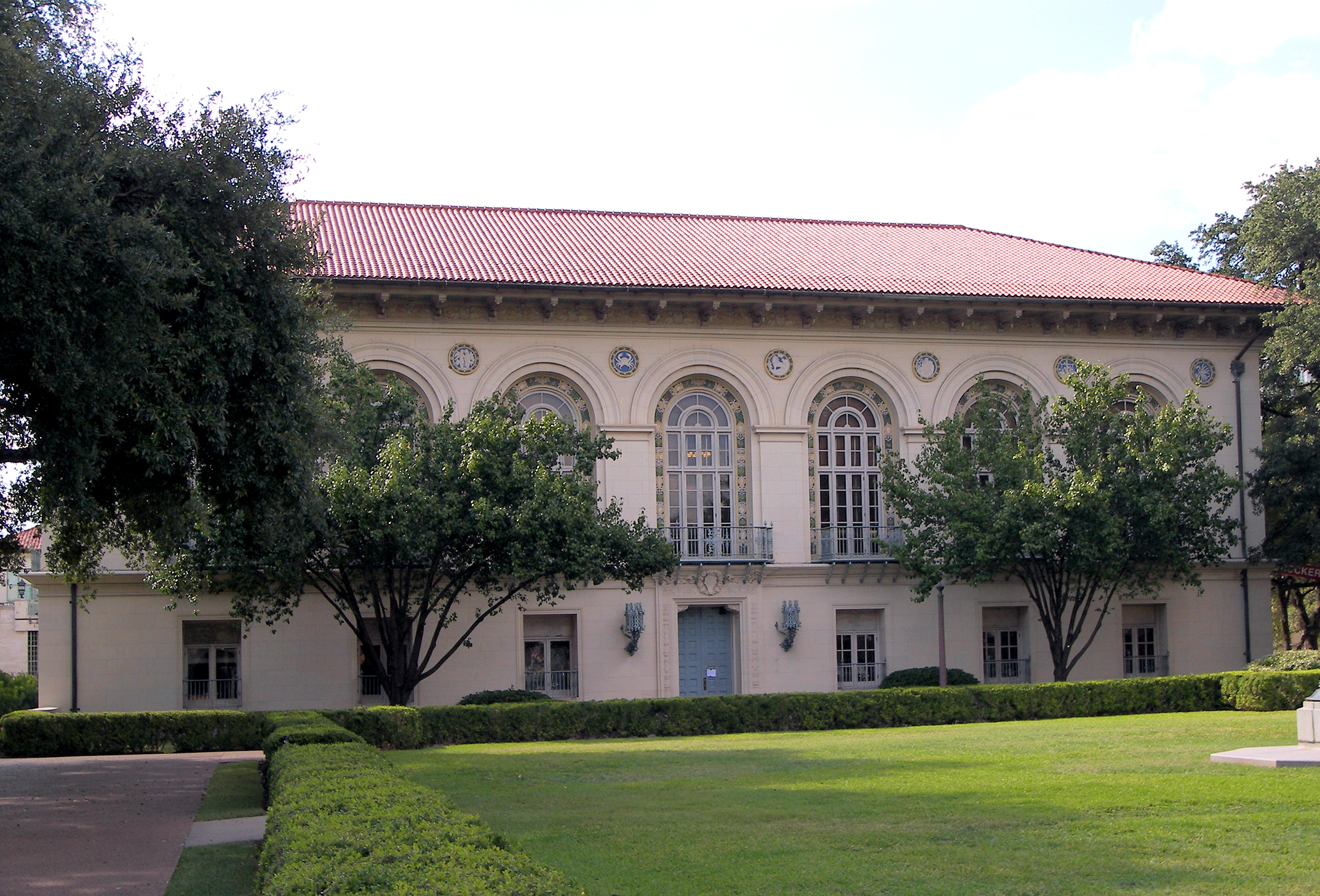 Battle Hall, located on the University of Texas at Austin campus. The building was listed on the National Register of Historic Places on August 25, 1970.